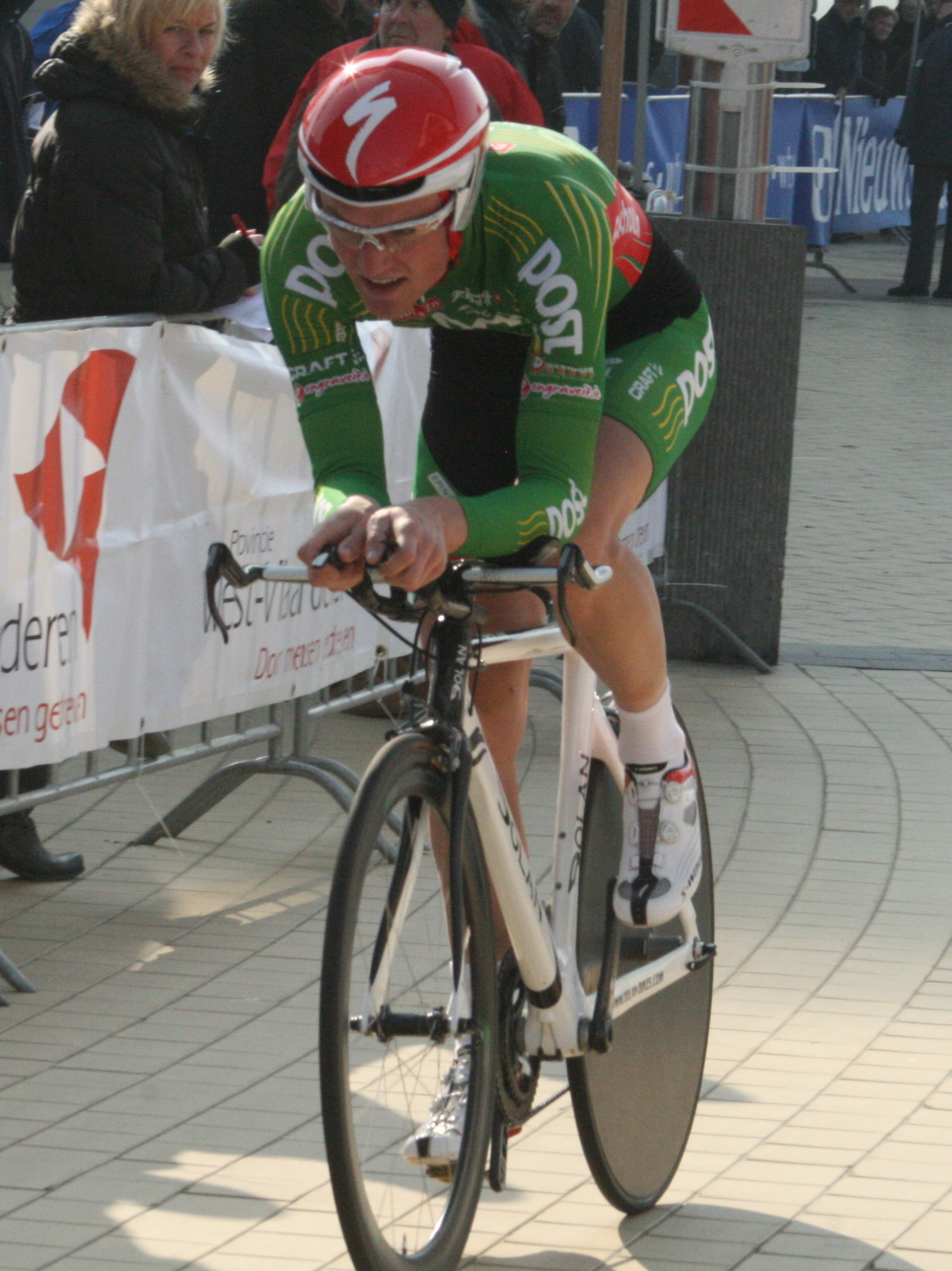 Andrew Fenn